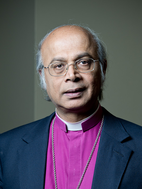 Photo: Wilberforce Academy. Wilberforce Academy, Exeter College, Oxord. Commissioned by Clare Osborne at the Wilberforce Academy. 24.3.11 Original job number: 2698